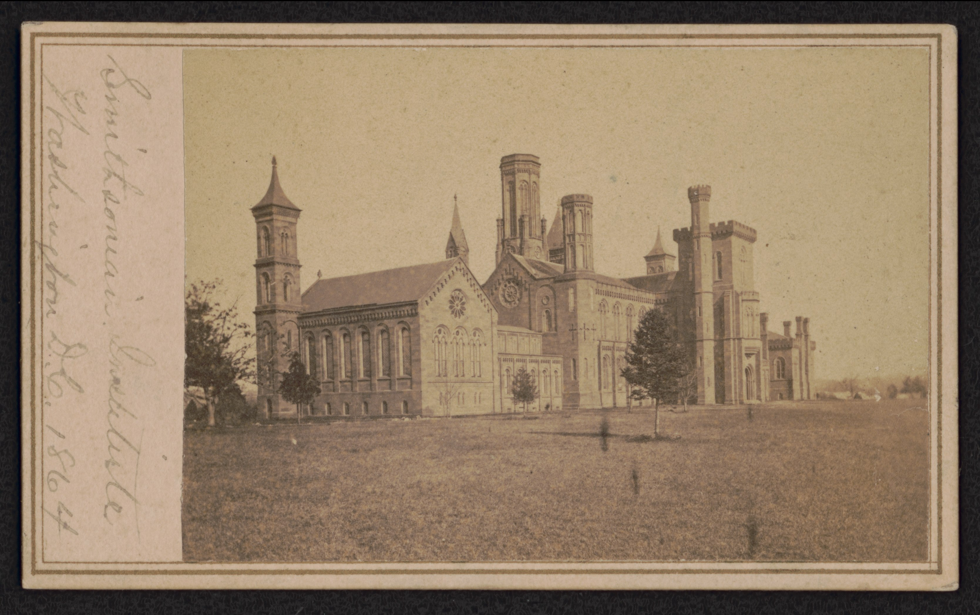 Title: Smithsonian Institution building, Washington, D.C. Abstract/medium: 1 photograph : albumen print on card mount ; mount 7 x 11 cm (carte de visite format)